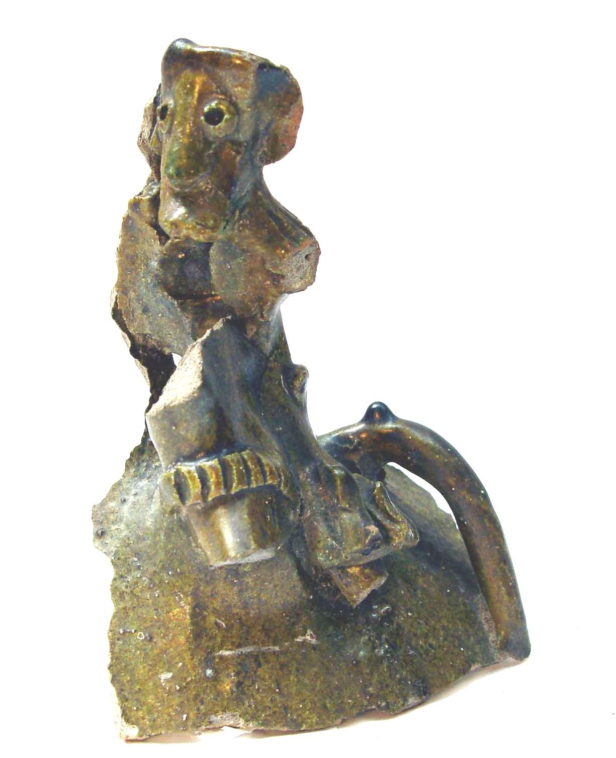 Lincoln Sandy ware knight jug, pottery fragment with green glaze. 13th century. Wheel thrown. Found in London